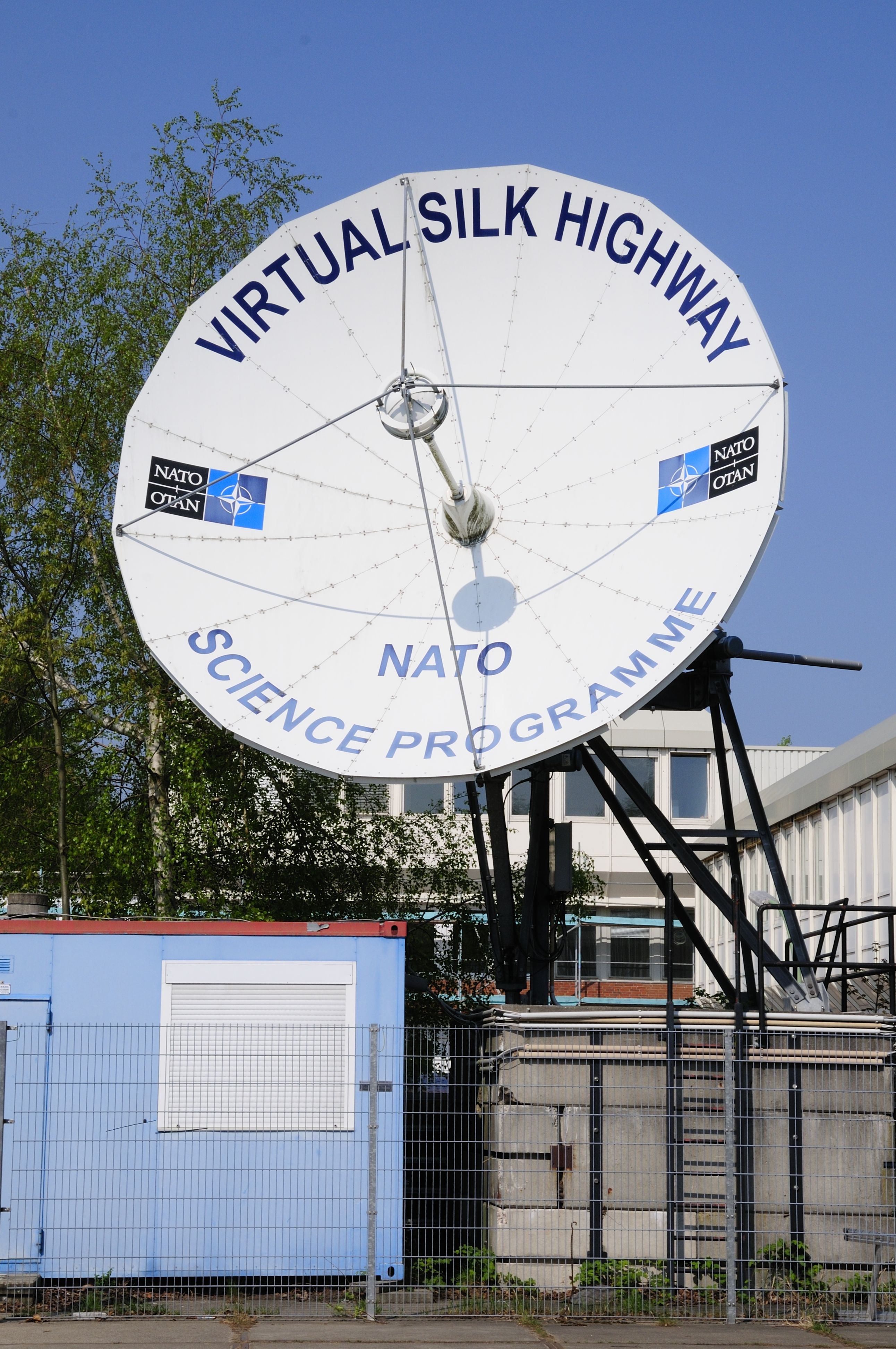 Satellite dish of the Virtual Silk Highway on the DESY grounds.